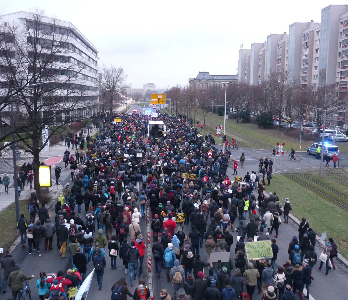 The demonstration in remembering the Murder of Khaled Idris Bahray shortly after the march started on the way to the Carola brigde.